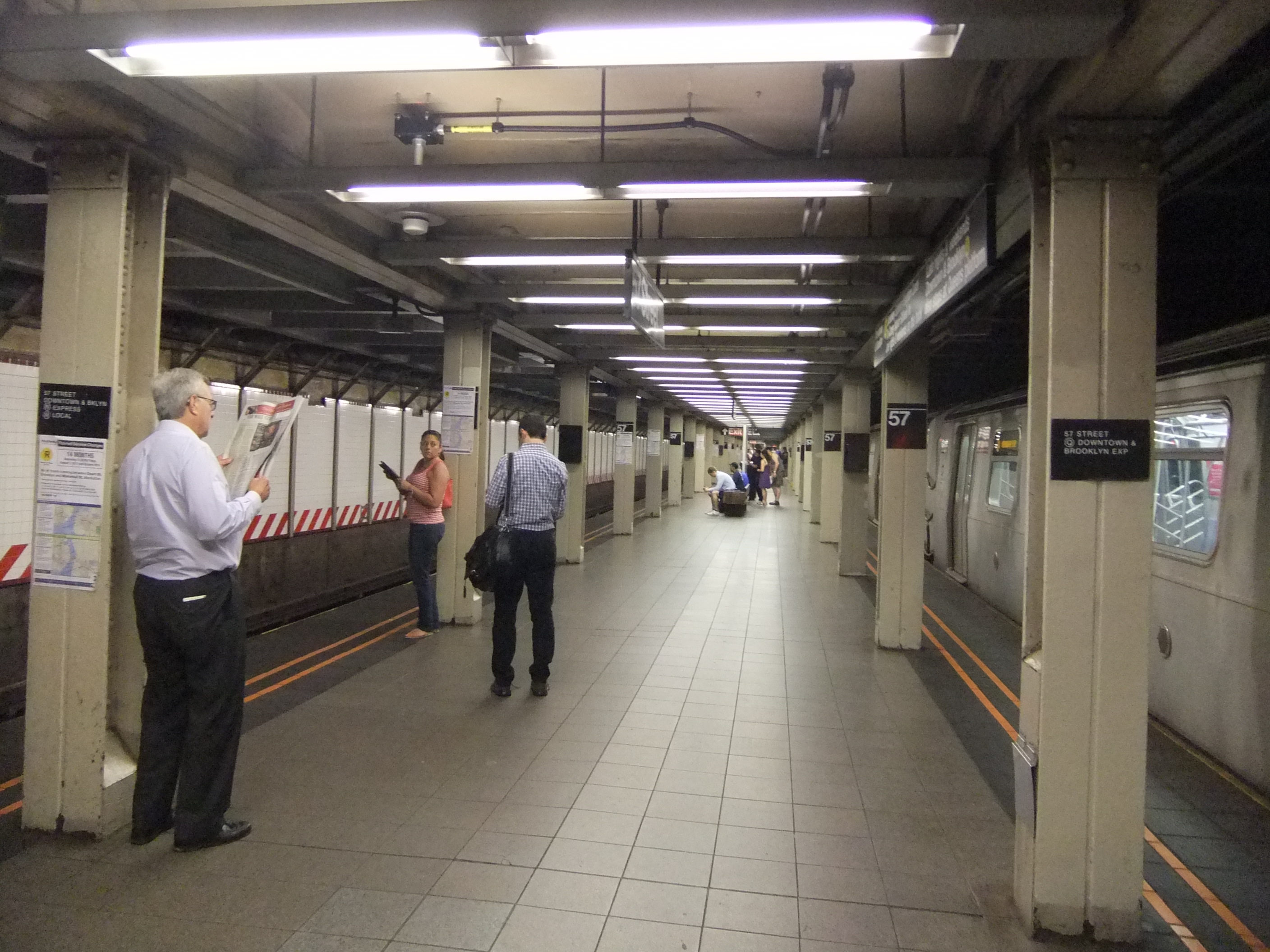 Brooklyn bound platform at 57th Street - 7th Avenue.